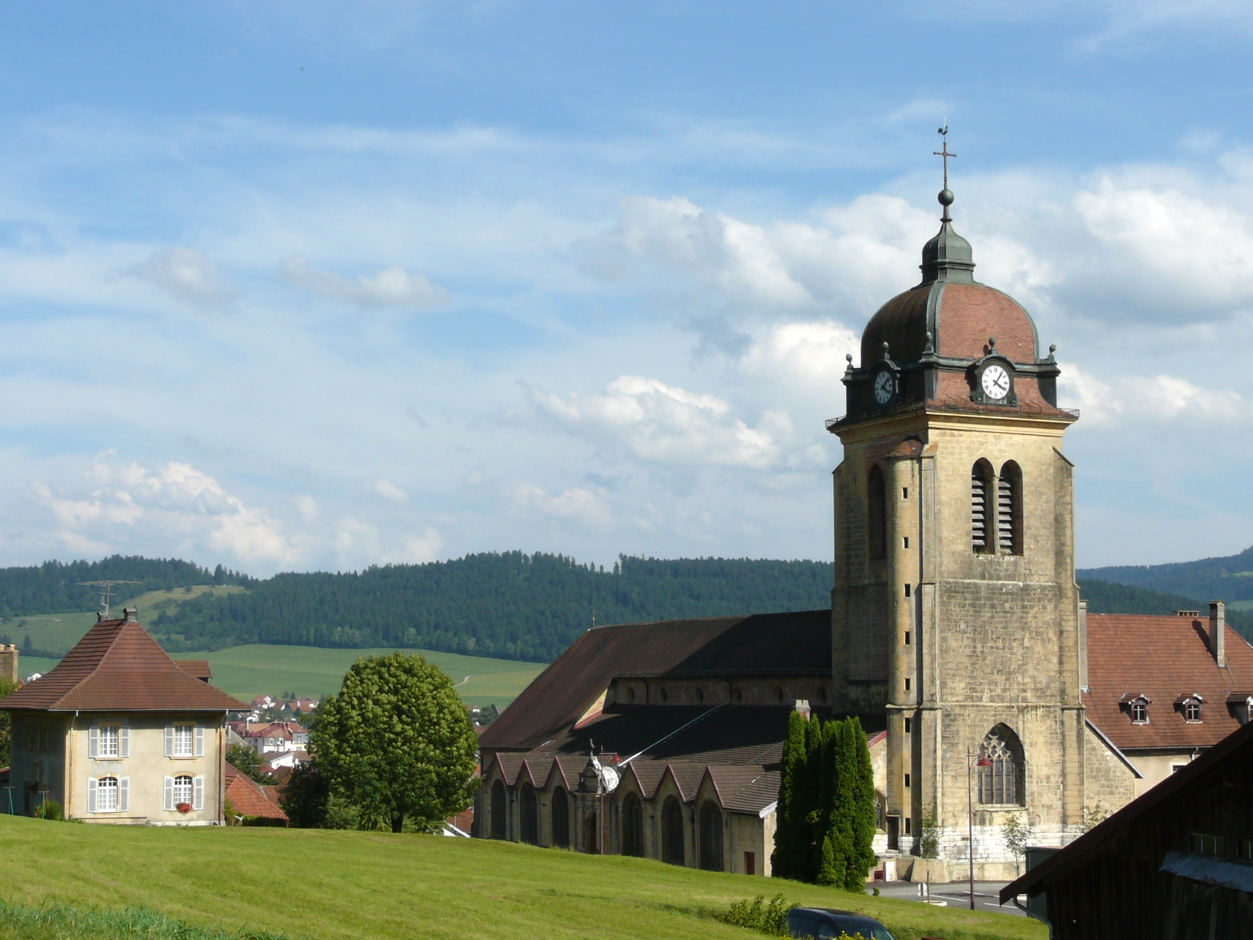 Church of Our Lady in Morteau